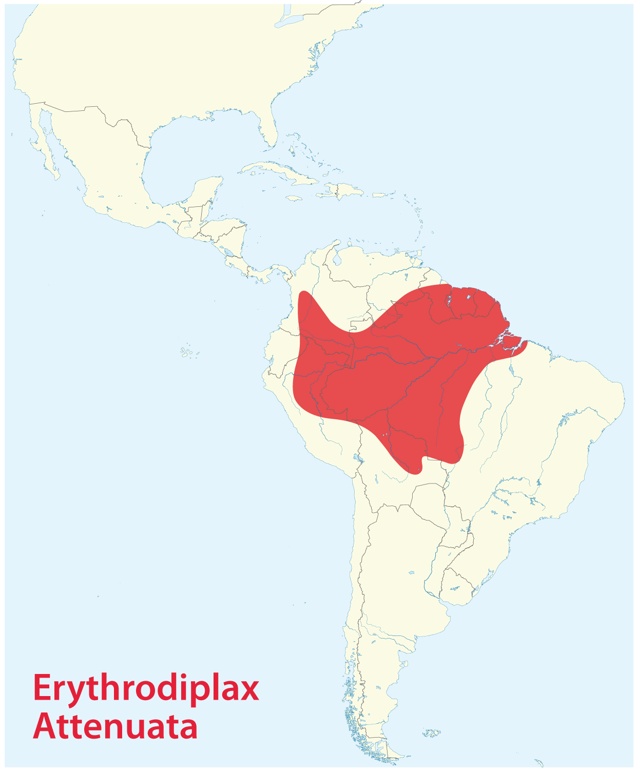 Distribution map of Erythrodiplax Attenuata